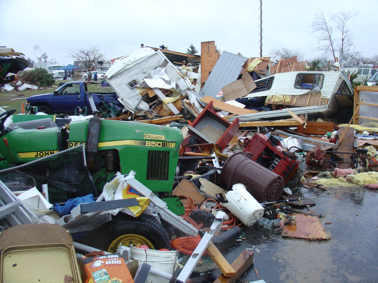 Extensive tornado damage was found across many areas of the Midwest and Gulf States, including in Kenosha County during a major January tornado outbreak. (Courtesy of NWS Milwaukee)